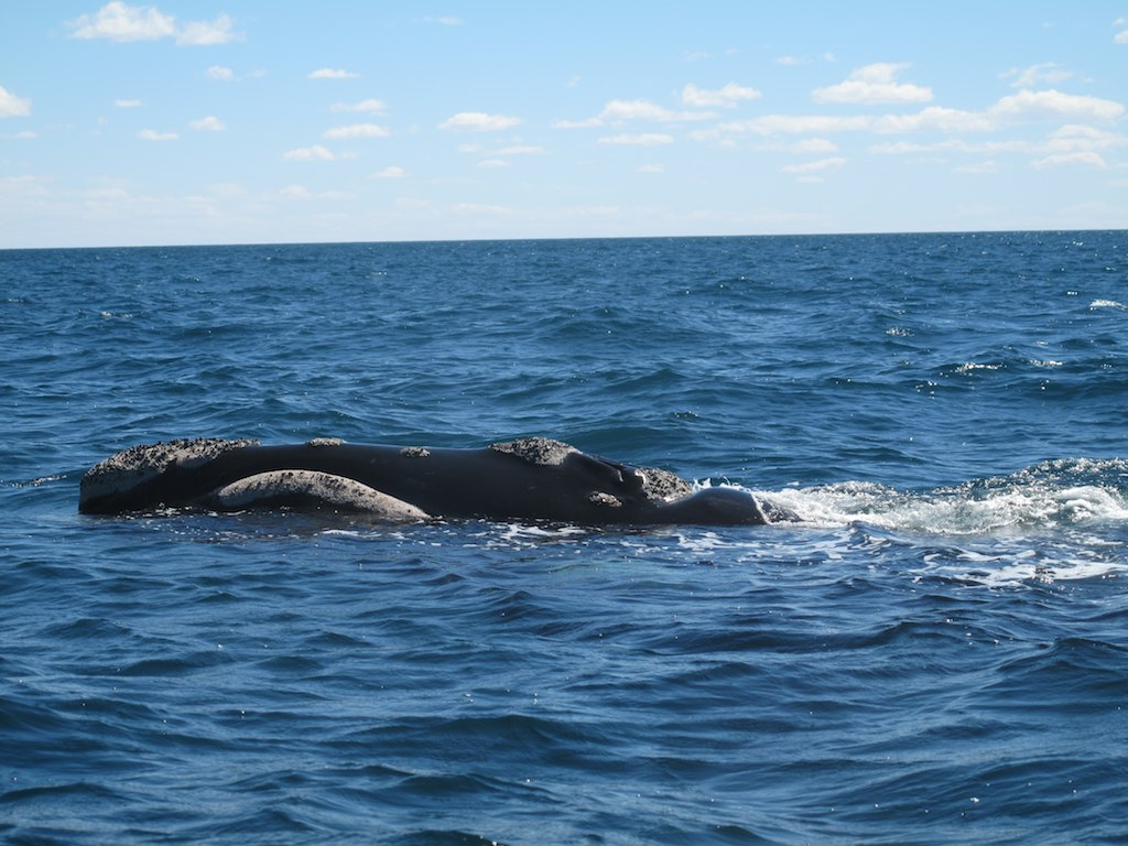 Ballenas en Valdes Peninsula, Patagonia (Argentina).